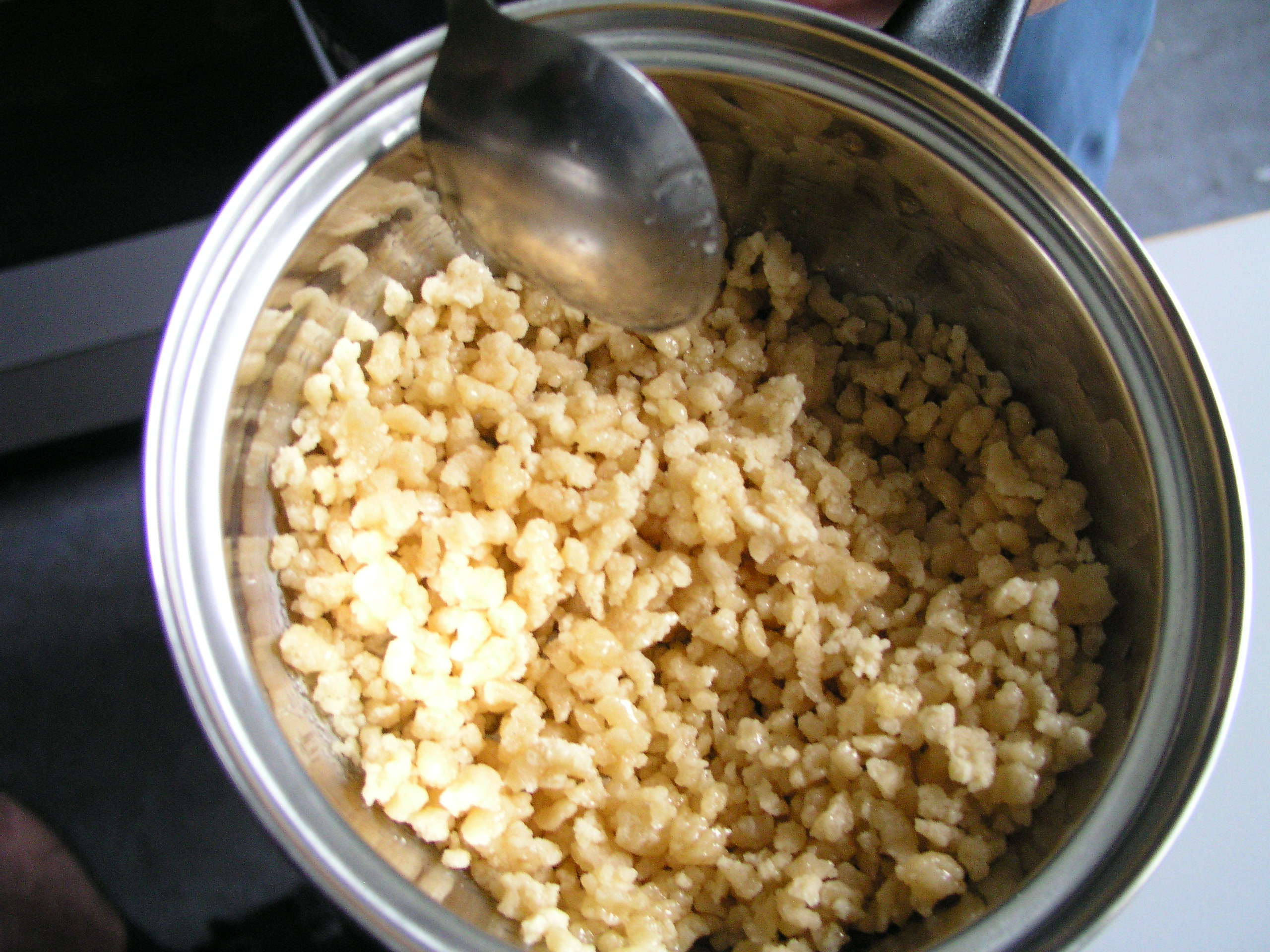 Tarhonya (Hungarian kind of pasta) being fried in a pot with a bit of sunflower oil.